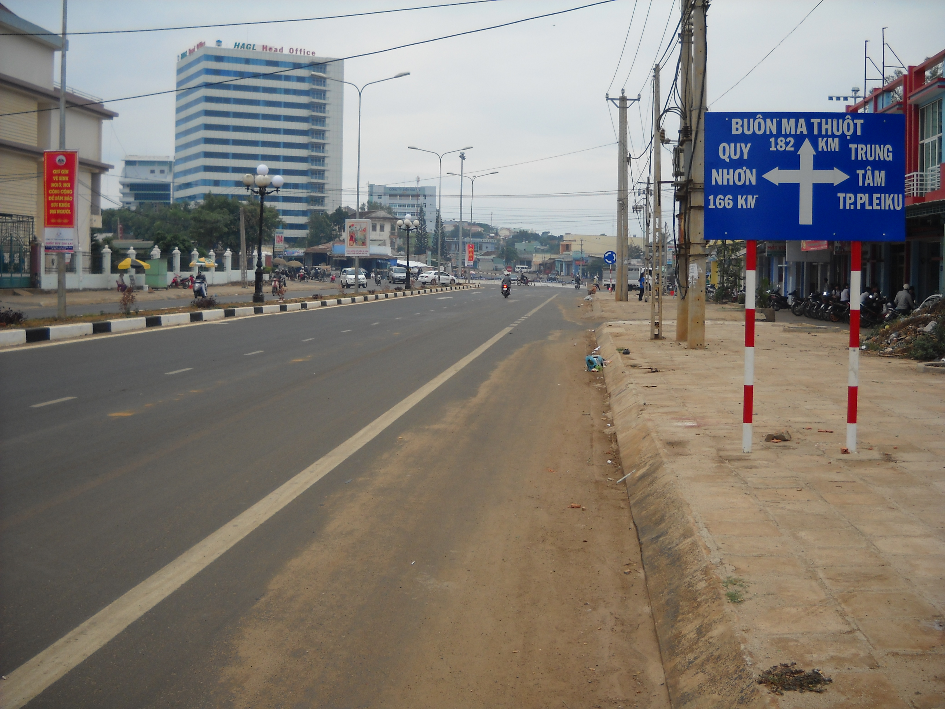 Pleiku